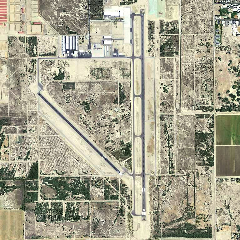 USGS digital orthophoto of Jacqueline Cochran Regional Airport in California